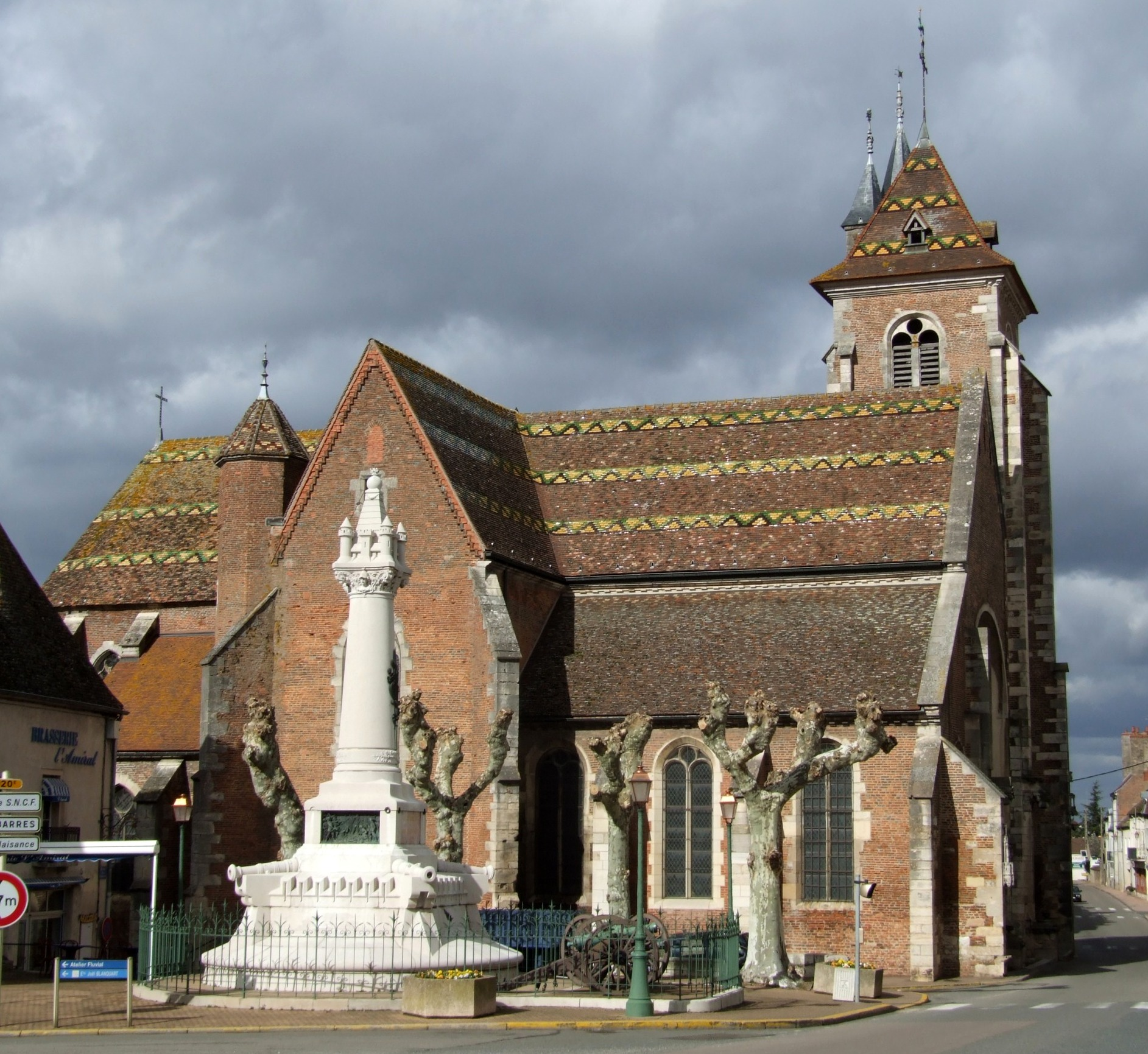 Saint Jean-Baptiste Church, Saint-Jean-de-Losne, Burgundy, FRANCE